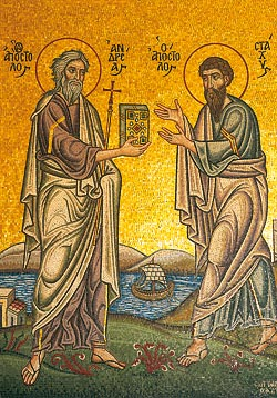 Saints Andrew and Stachys